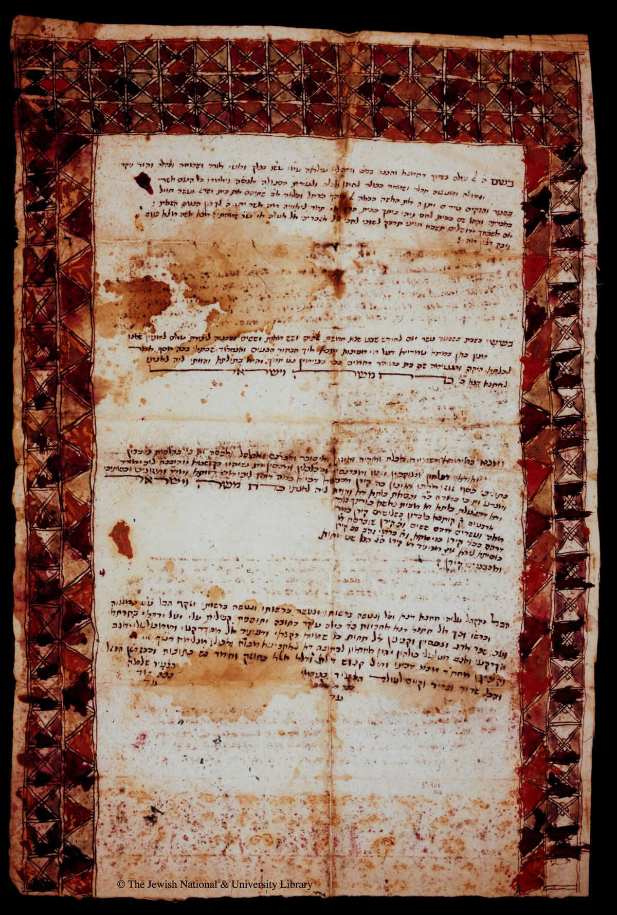 Ketubah from The Ketubot Collection of the National Library of Israel